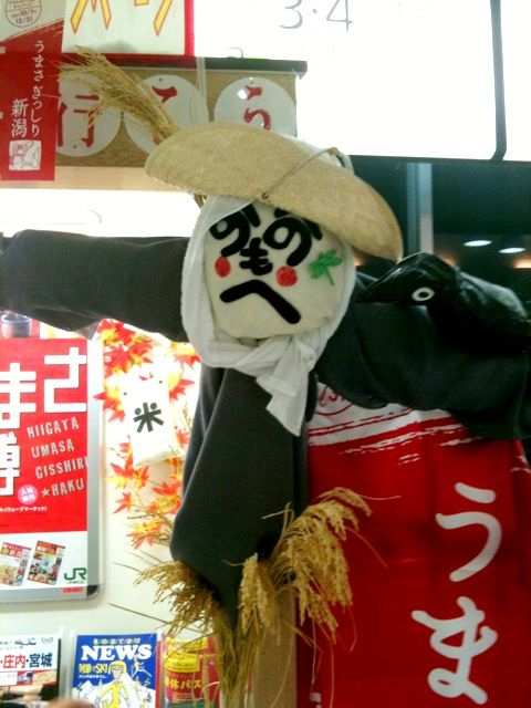 Henohenomoheji, face drawn using hiragana characters